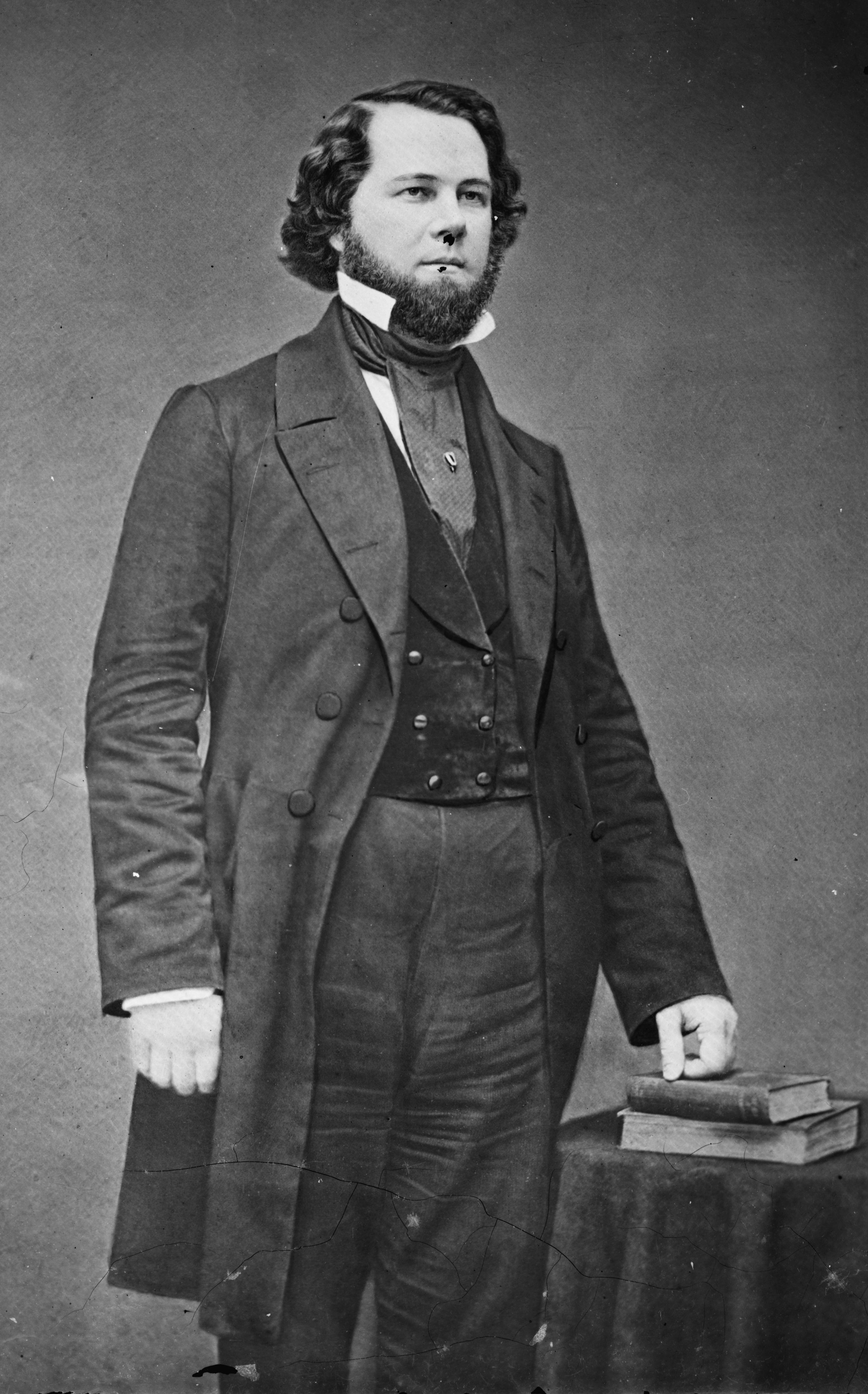 Thomas Ruffin. Library of Congress description: "Hon. Thos. Ruffin of N.C."